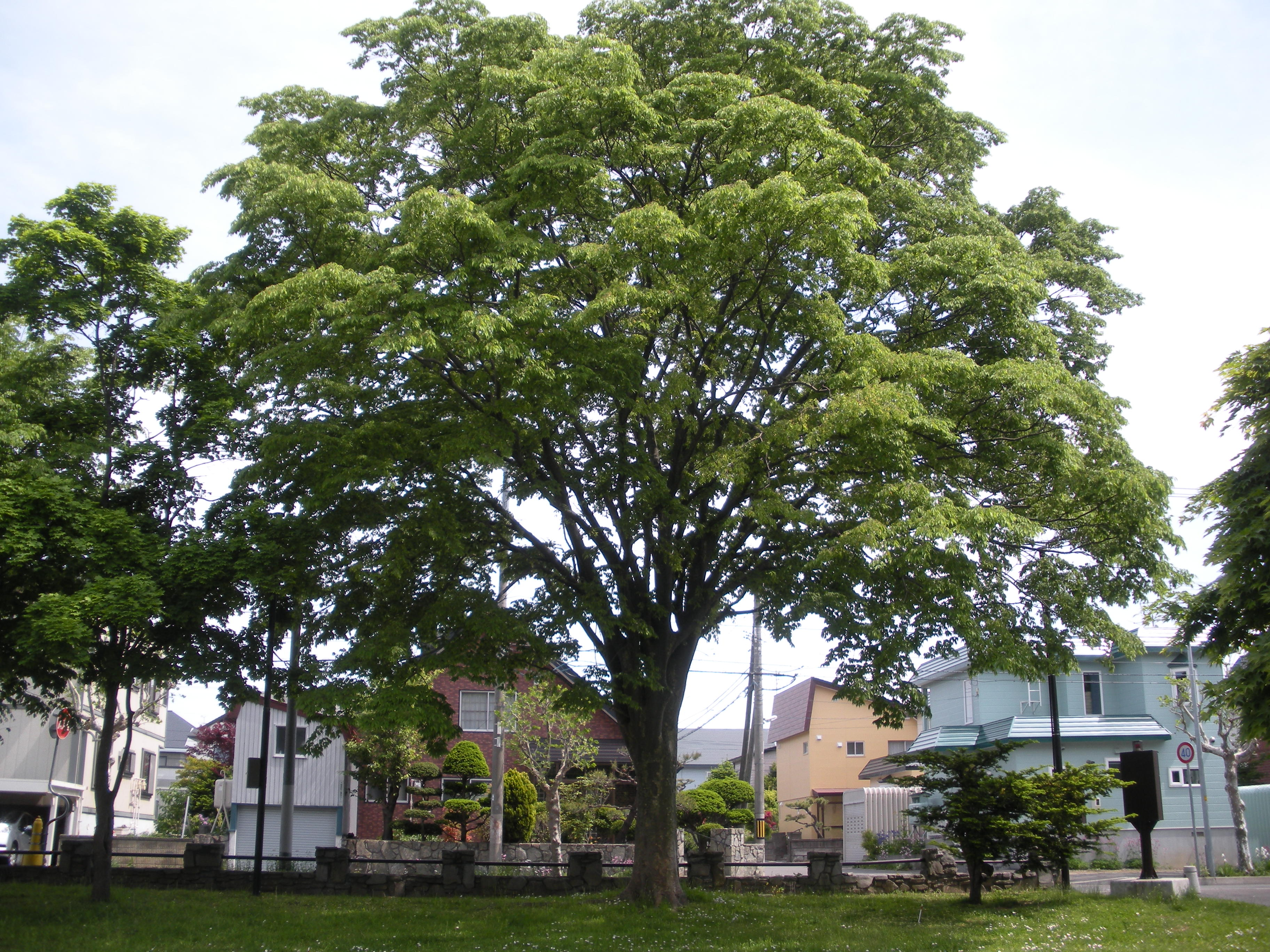 Zelkova serrata in Oasa HigashimachiPark Ebetsu, Hokkaido